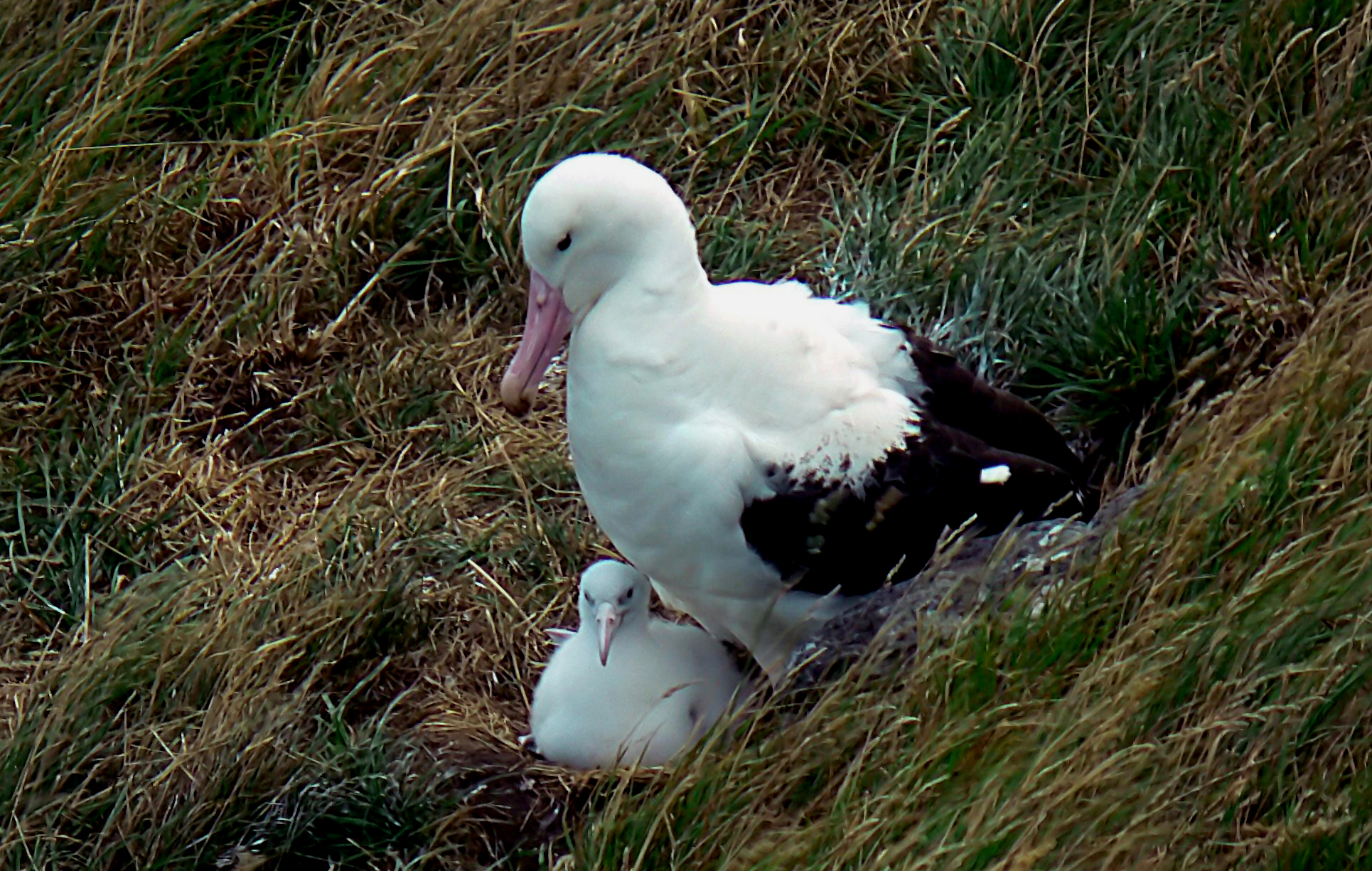 The northern royal albatross is a huge white albatross with black upperwings. It usually mates for life and breeds only in New Zealand. Biennial breeding takes place primarily on The Sisters and The Forty-Fours Islands in the Chatham Islands. There is also a tiny colony at Taiaroa Head near Dunedin on the mainland of New Zealand, which is a major tourist attraction. Northern royal albatross can be sighted throughout the Southern Ocean at any time of the year. Non-breeding and immature birds, including newly fledged birds, undertake a downwind circumnavigation in the Southern Ocean. The main wintering grounds are off the coasts of southern South America. They are generally solitary foragers and forage predominantly over continental shelves to shelf edges.